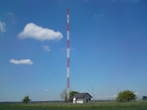 former Medium wave transmitter Ulm-Jungingen.